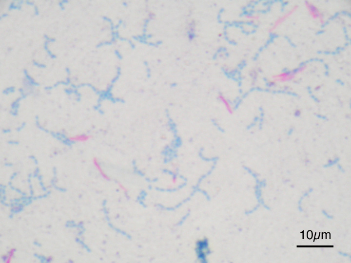 microscopic image of bacteria stained by Ziehl Neelsen staining. Magnification:1,000 Pink: acid-fast bacteria (Mycobacterium bovis BCG) Blue: non-acid-fast bacteria (Streptococcus mutans, for counter stained)